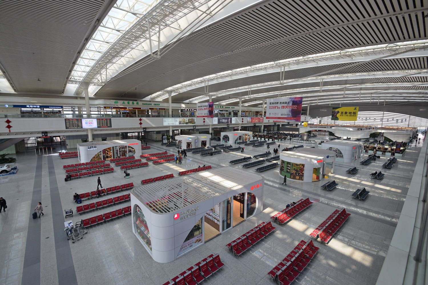 Departure Concourse of Dalian Bei (North) Railway Station